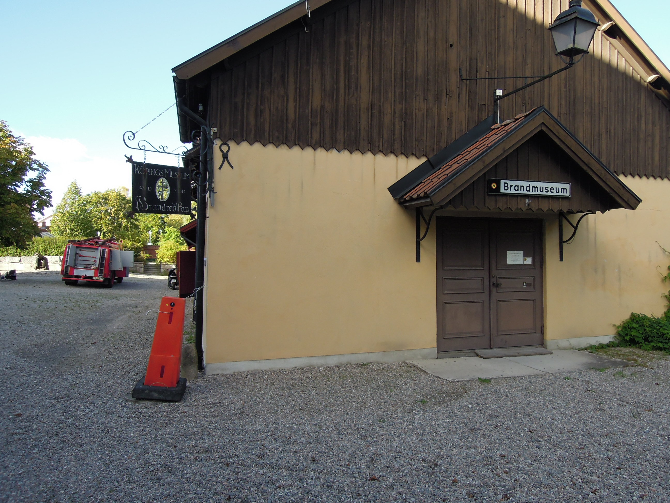 Fire fighting museum in Köping, Sweden